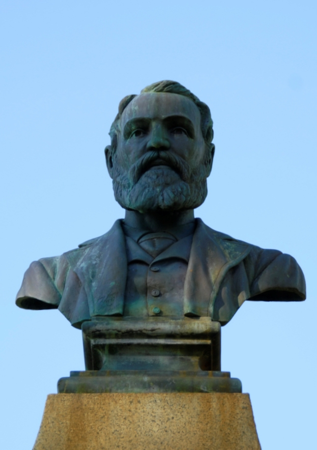 Detail of the Explorers'_Monument,_Fremantle in Western Australia. The image is given as that of Maitland Brown. A signature appears at lower left, it is indistinct in this image.